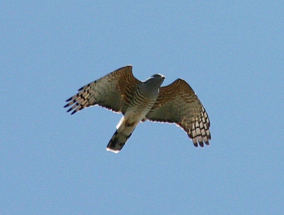 African Cuckoo-Hawk (Aviceda cuculoides) in flight. "I saw it and snapped off a picture, we thought it was an African Goshawk at the time, but looking at it in photoshop we realised it must be a Cuckoo-hawk. It was at Blyde River Canyon."